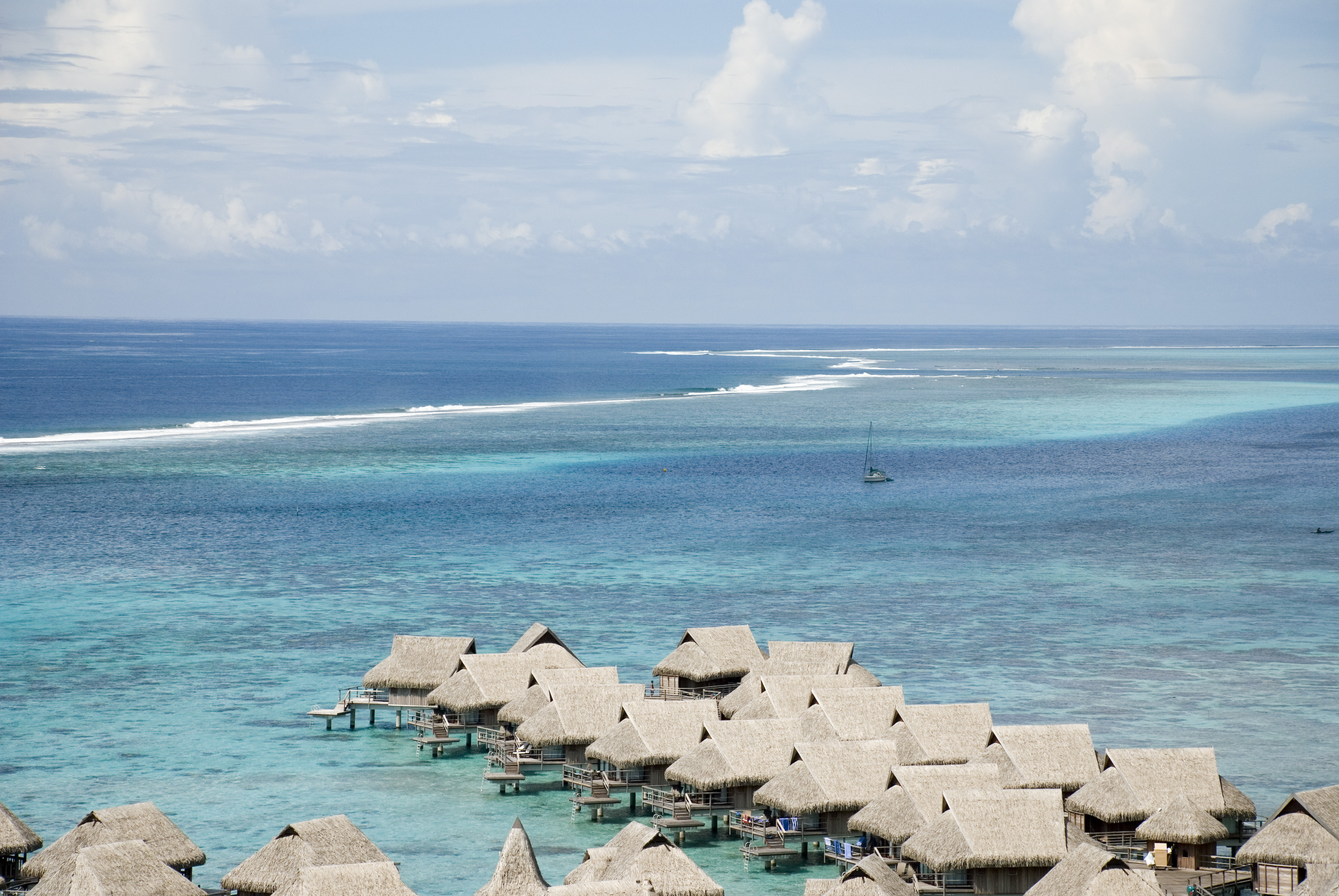 Teavaro at Mo’orea